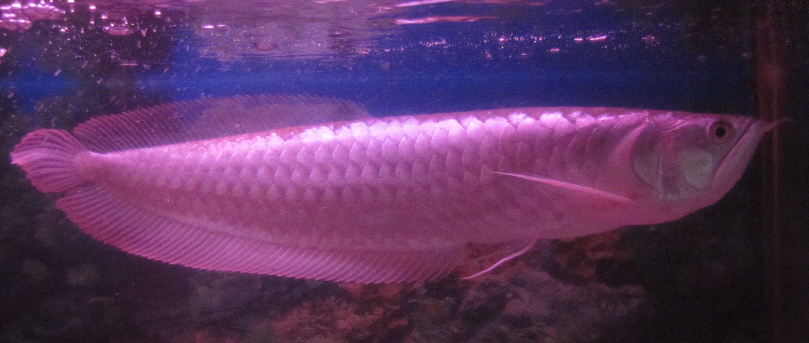 A silver arowana Osteoglossum bicirrhosum variant known as "Snow arowana" or "Platinum arowana" caused by leusistic (little pigmentation) in an aquarium